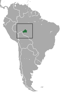 Rondon's Marmoset (Mico rondoni) range IUCN: Mico rondoni Ferrari, Sena, Schneider & Silva Jr., 2010 (old web site) (Vulnerable)